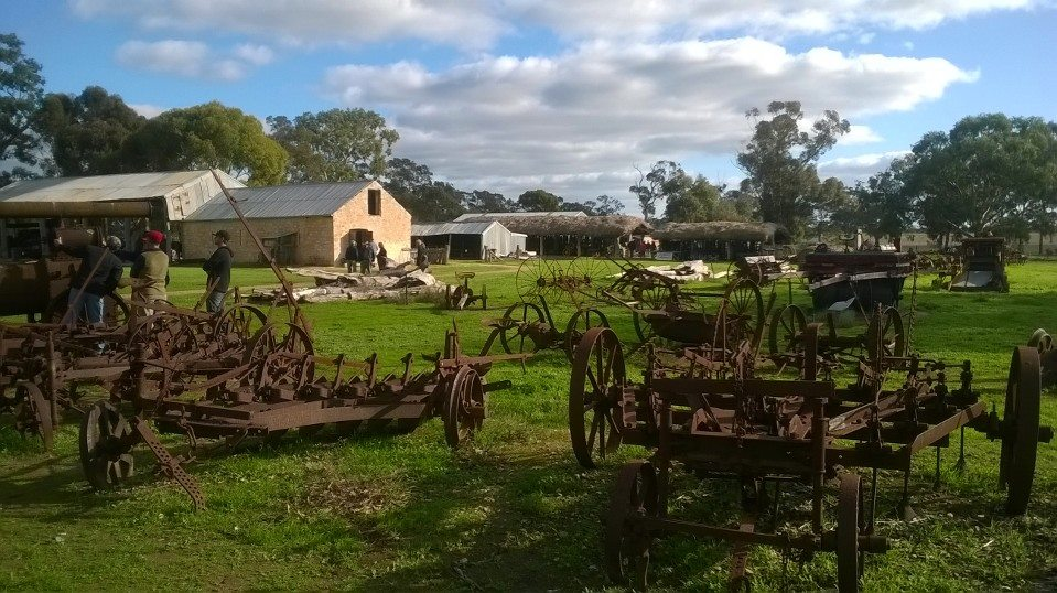 This photo shows some old farming equipment in the fields of Clayton Farm, now a heritage museum. In the background can be seen some of the thatched roof buildings, and the stone chaff shed.